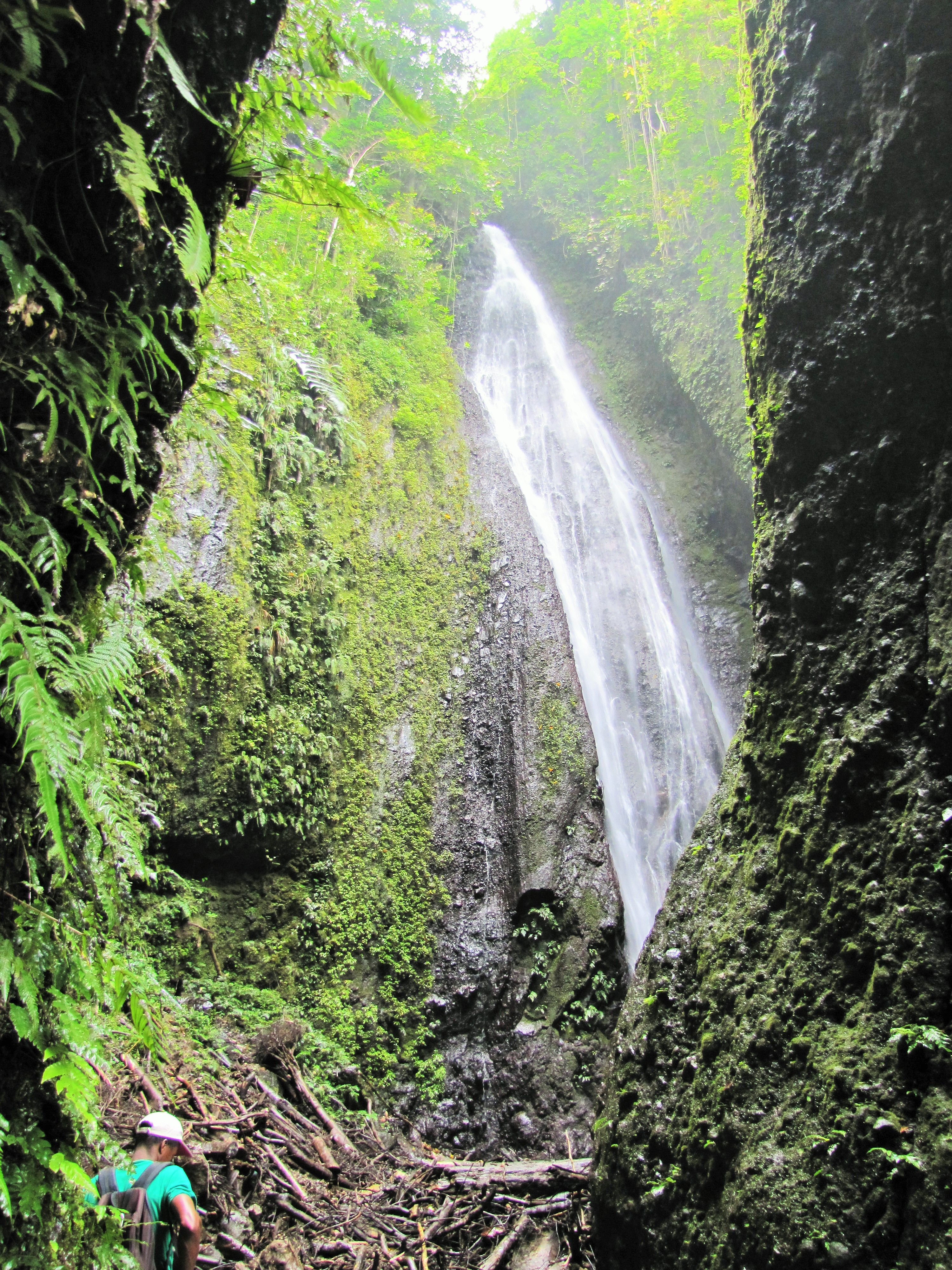 Sao Tome Ponta Figo Hike Waterfall 3